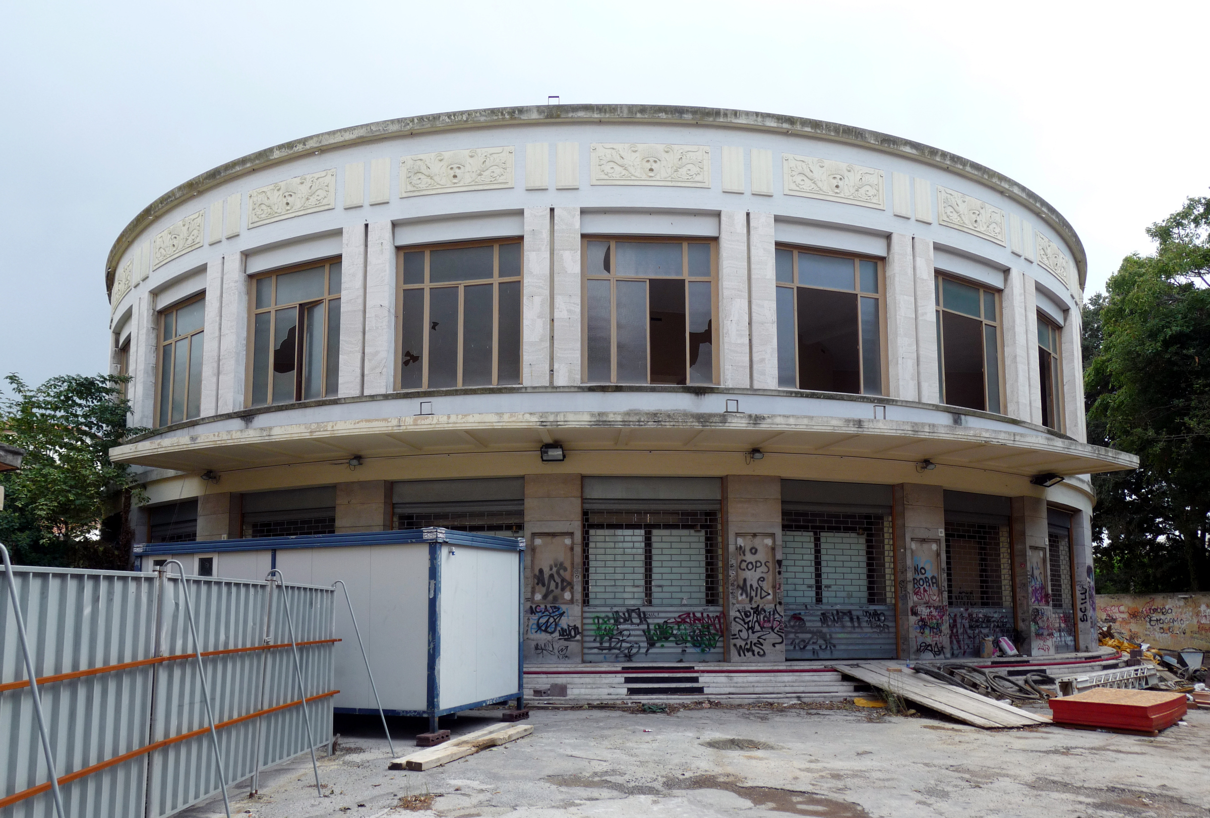 Ex-Cinema Odeon, Livorno, Italy